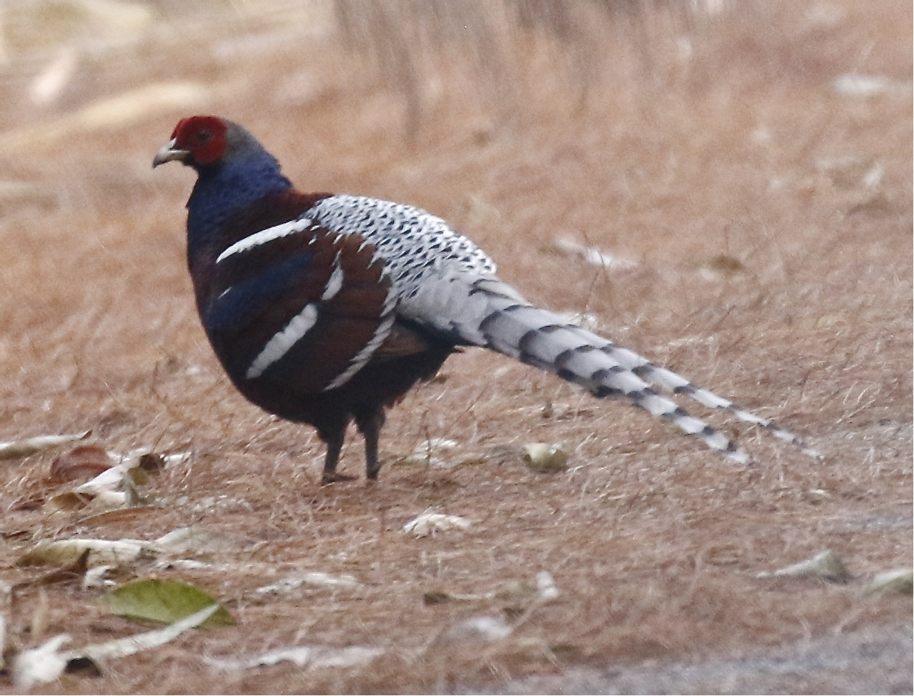 Doi Lang Mountain - Thailand